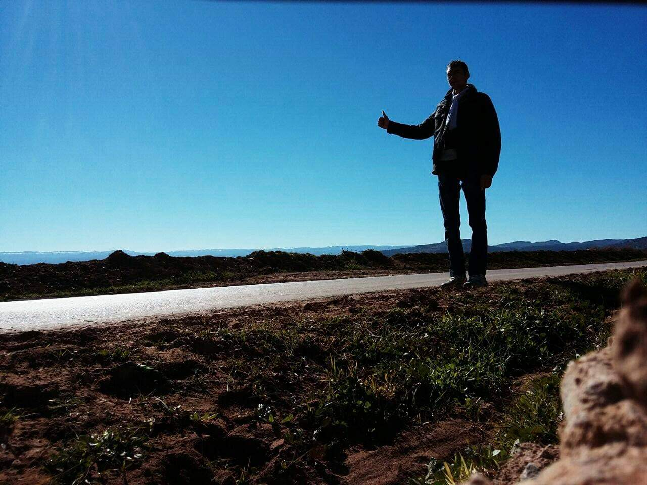 This is an image with the theme "Africa on the Move or Transport" from: Morocco